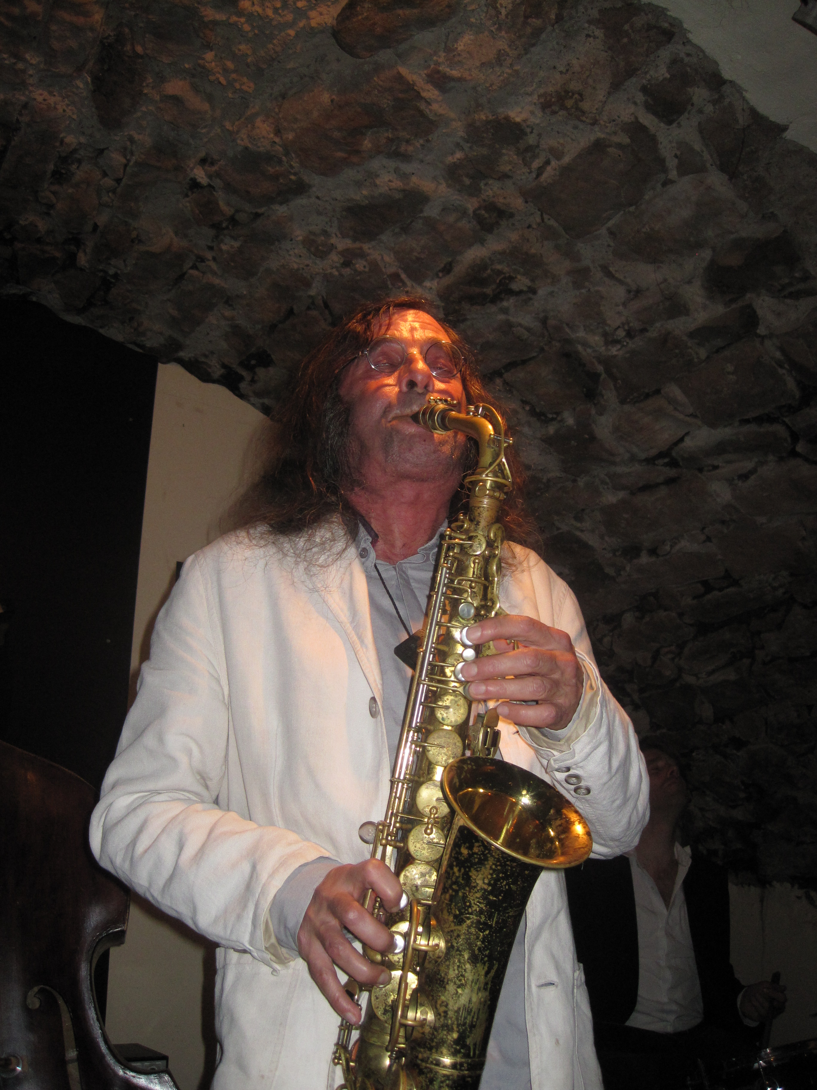 american altosaxophonist Allan Praskin, expatriate